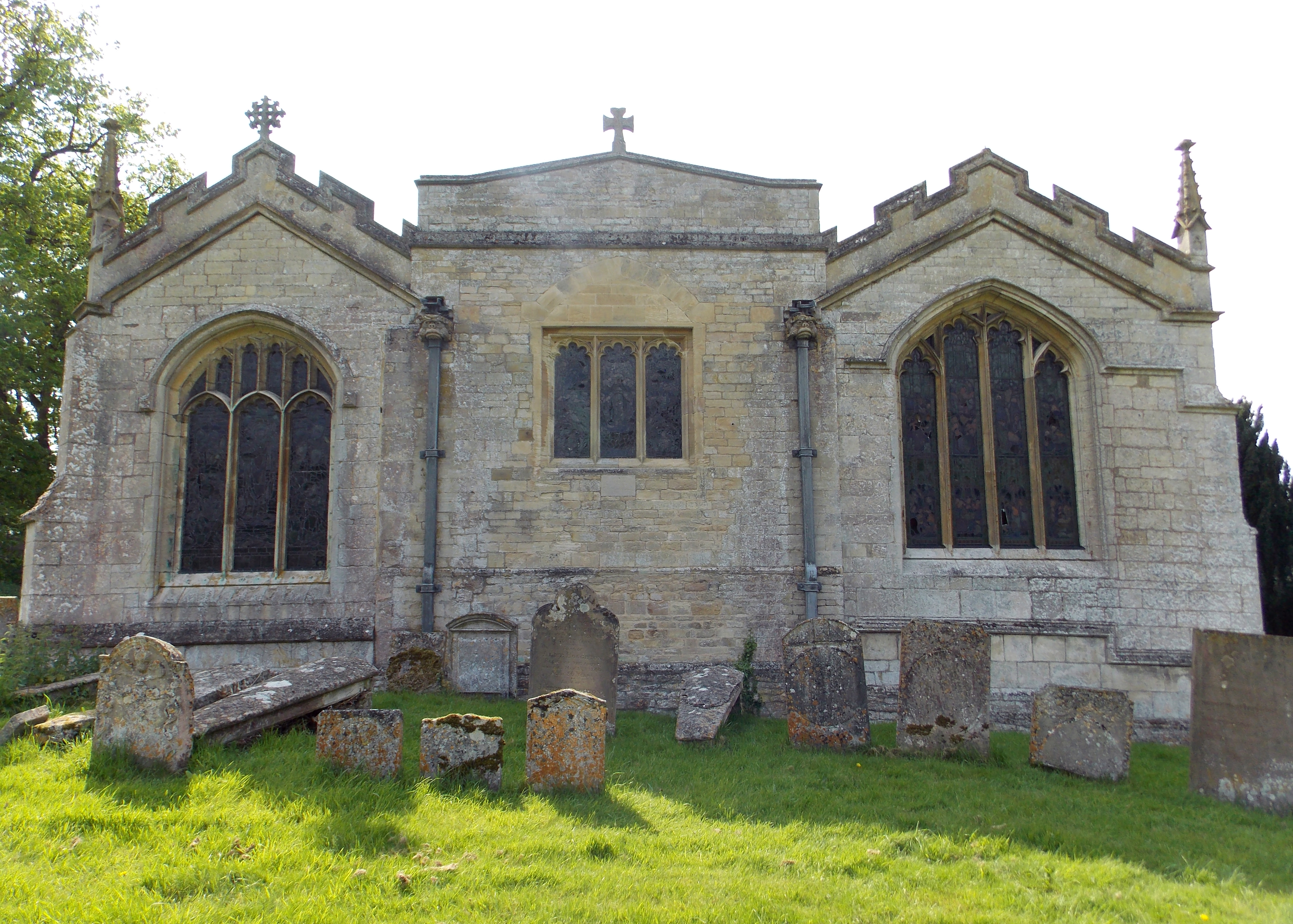 SS Andrew and Mary's parish church, Stoke Rochford, Lincolnshire, seen from the east. 15th-century south and north chapels flank the chancel.